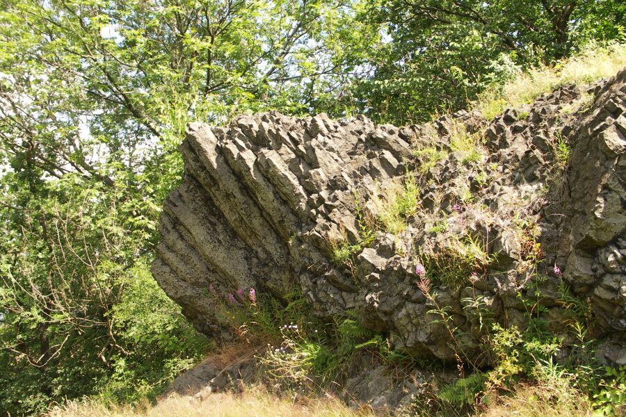 basalt formations, Bubenik mountain, Saxony, Germany